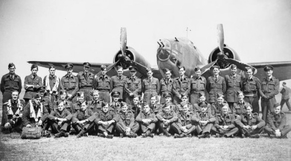 Personnel of No. 487 Squadron RNZAF grouped in front of a Lockheed Ventura Mark II at Methwold, Norfolk. Standing eighth from the left is the Commanding Officer, Wing Commander G J “Chopper” Grindell On his right is the ‘A’ Flight commander, Squadron Leader T Turnbull, and on his left the ‘B’